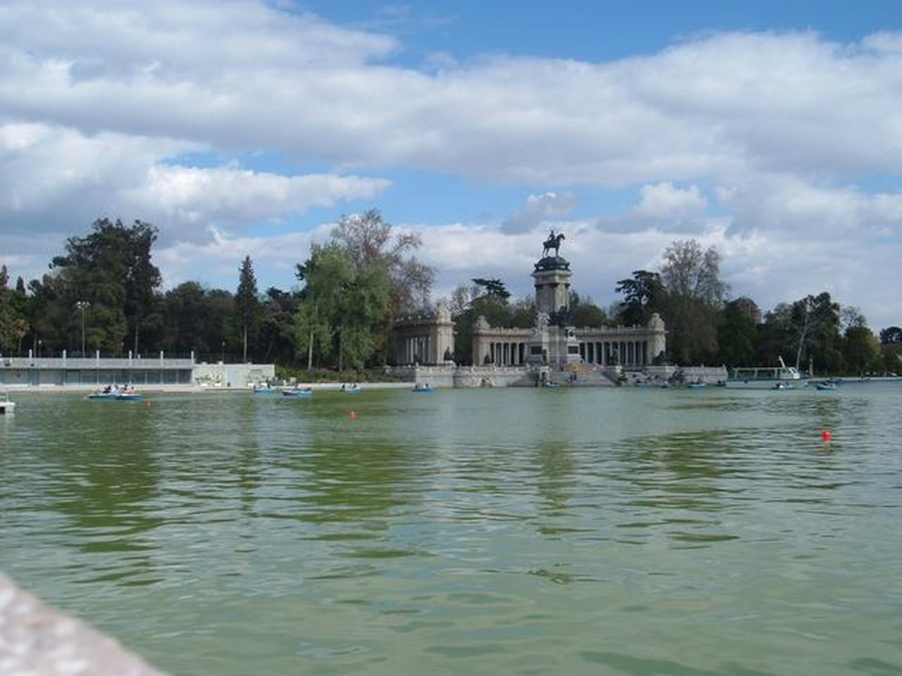 Pond in the Retiro Park (Jardines del Buen Retiro) in Madrid (Spain). In the background, the Monument to Alfonso XII.